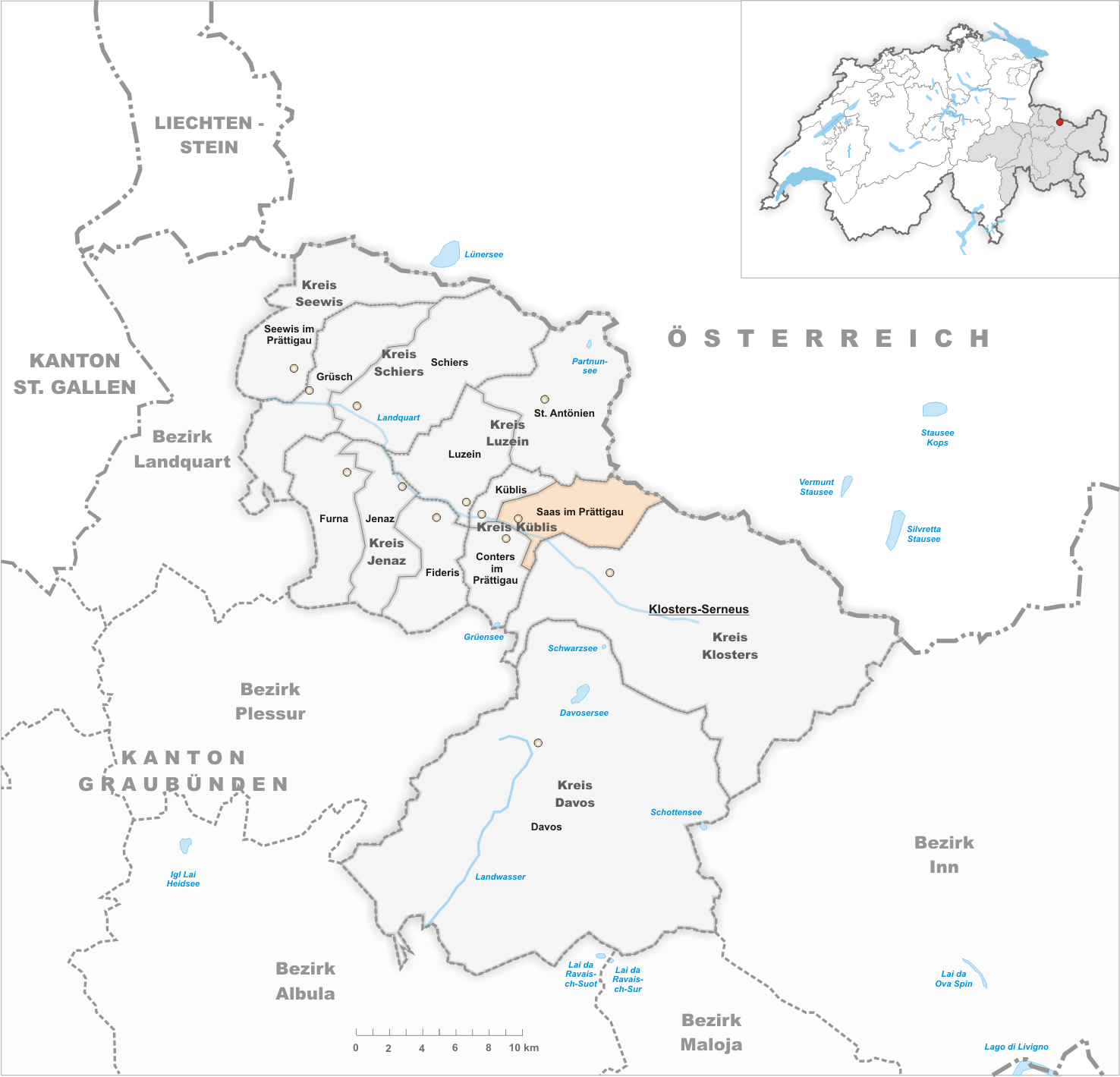 Municipality Saas im Prättigau